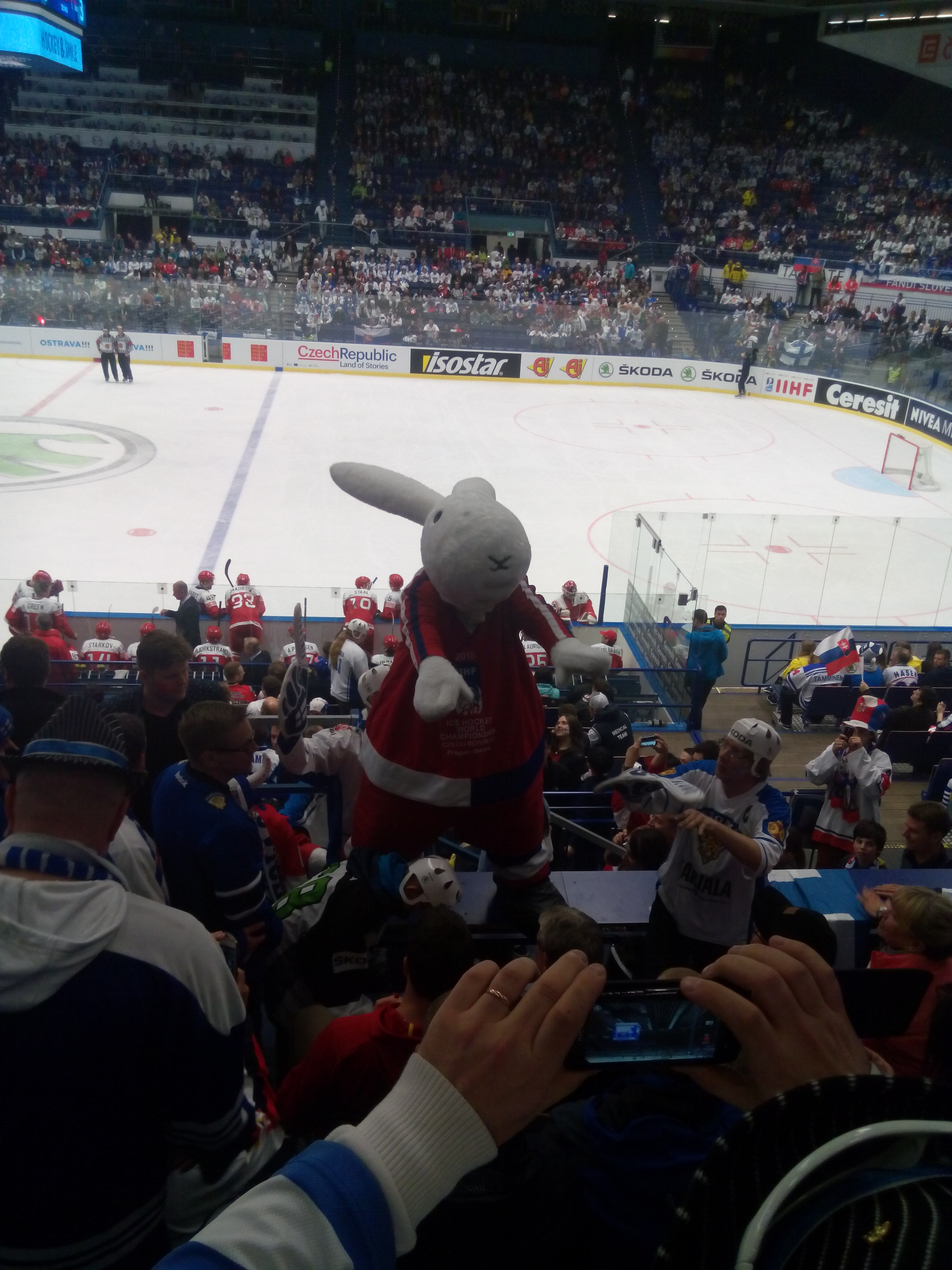 en:2015 IIHF World Championship in Ostrava – one of the mascots of the championship